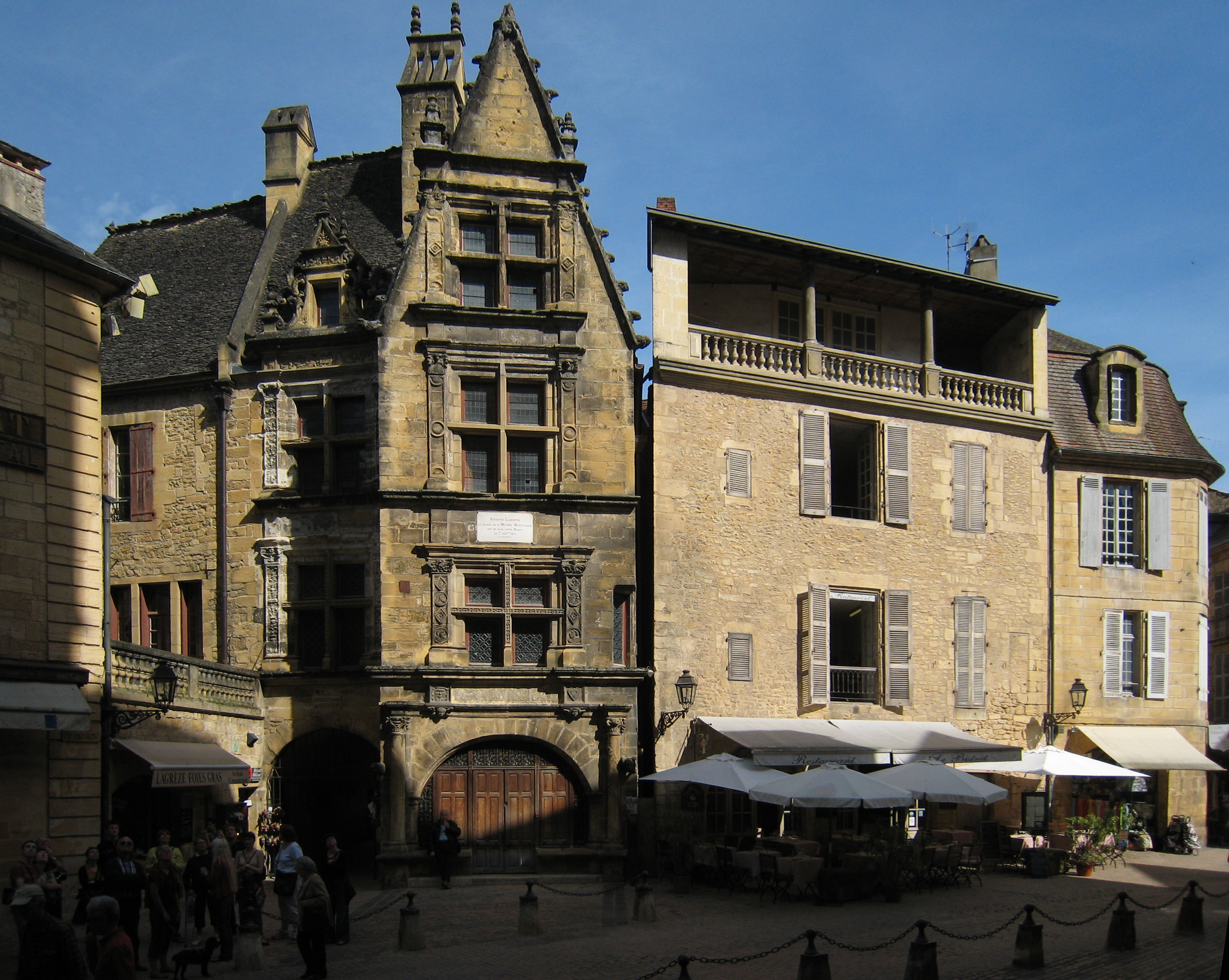 Village of Sarlat in the Département of Dordogne/France - old town, Maison de La Boétie